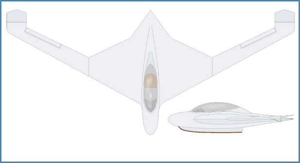 ZAGI MAI 63 Plank Flying Wing